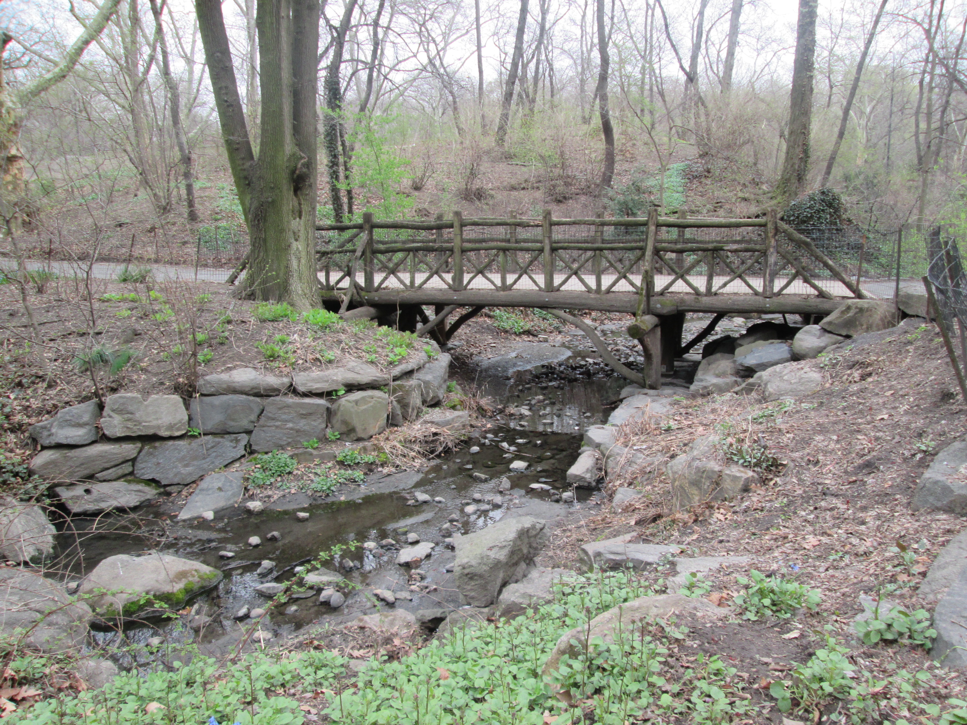 Central Park in Manhattan, New York; bridge over former Ladies' Pond